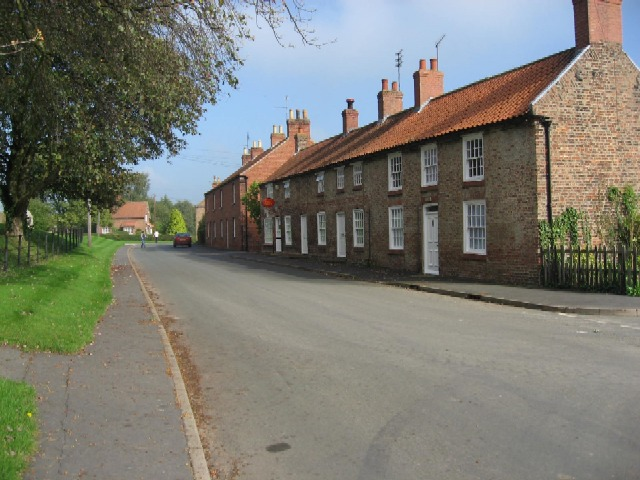 Village of Bugthorpe, East Riding of Yorkshire, England.The main street. The sign for the Post Office can be seen on the right of the photograph.